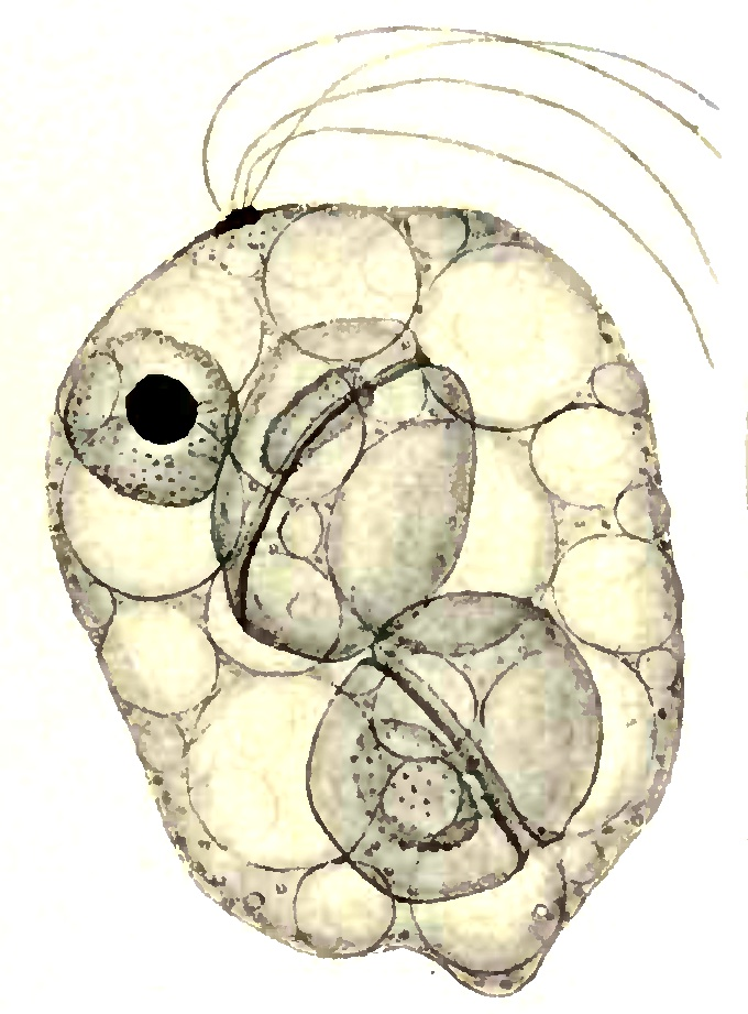 Collodictyon that ate a Peridinium